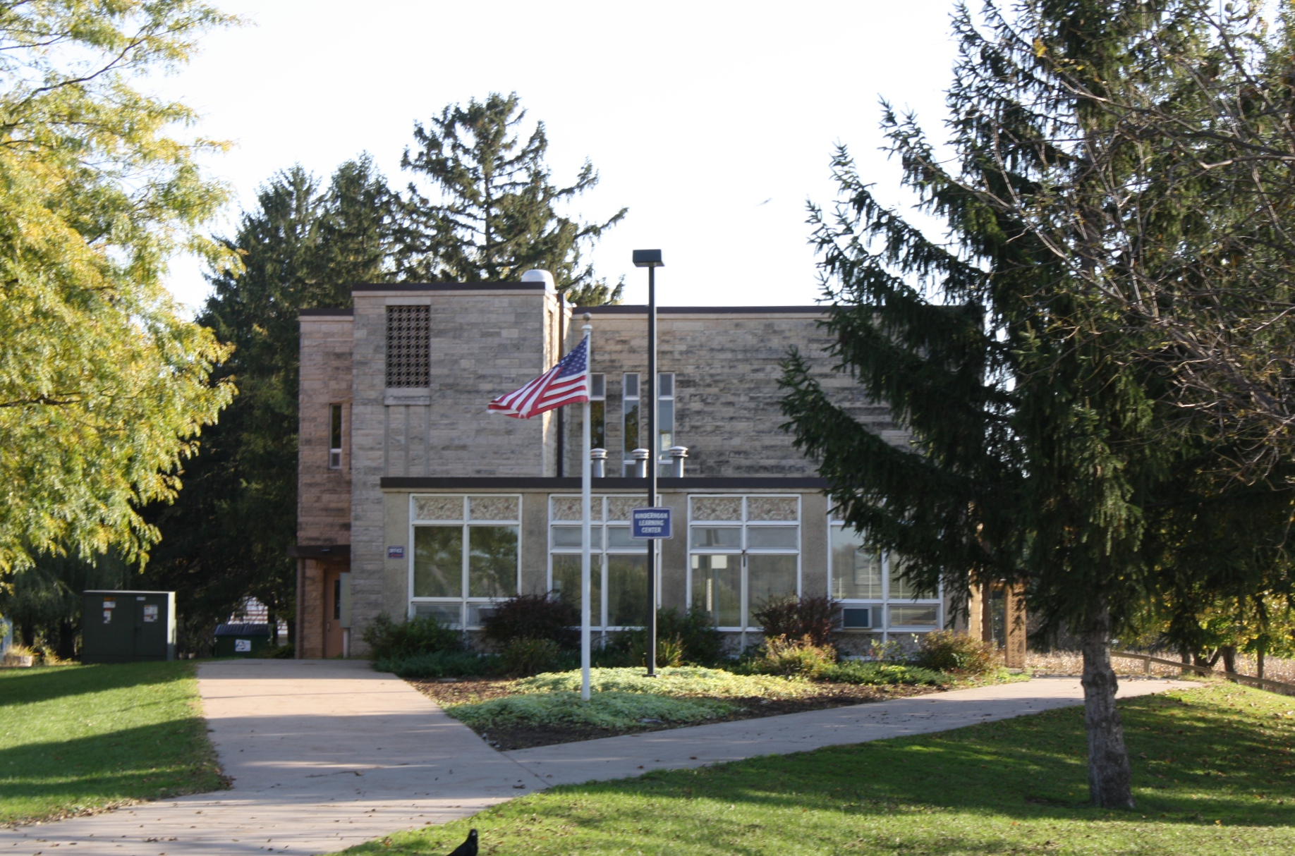 A kindergarten building at the defunct Gale College in Galesville, Wisconsin.